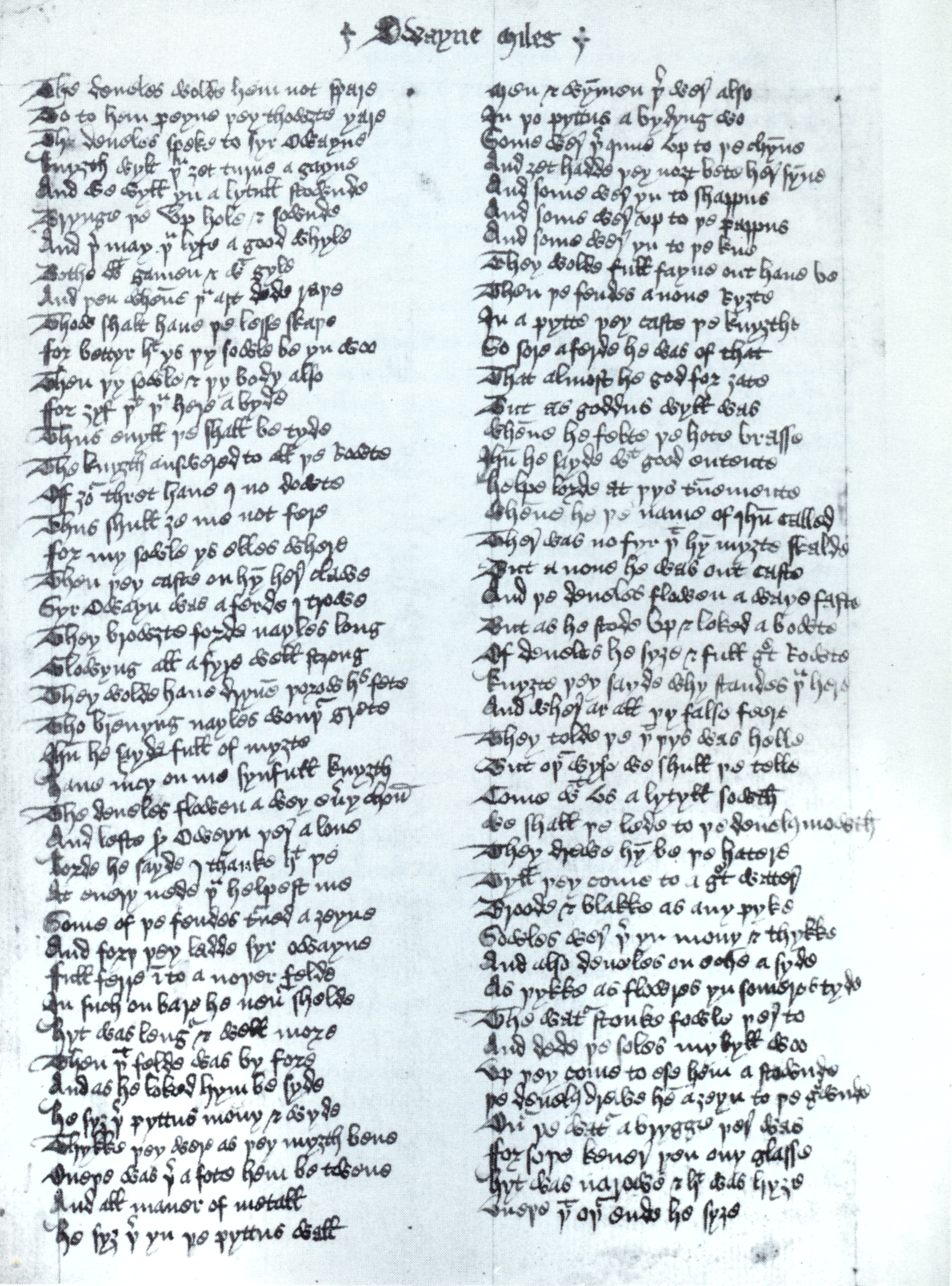 Folio 93v of British Library MS Cotton Caligula A ii, showing a Middle English translation of Tractatus de Purgatorio Sancti Patricii, organized in octosyllabic couplets. The first lines of the left column read (see p. 52, line 333 ff.): The deueles wolde hem not spare, To [d]o hem peyne þey thowȝte yare. Th[e] deueles speke to Syr Owayne, 'Knyȝth, wylt þou ȝet turne agayne, And we wyll yn a lytull stownde Brynge þe vp hole and sownde; And þer may þou lyfe a good whyle, Bothe wyth gamen and wyth gyle. (This is from the third torment or the 1st field of torment where souls are nailed face-down.)